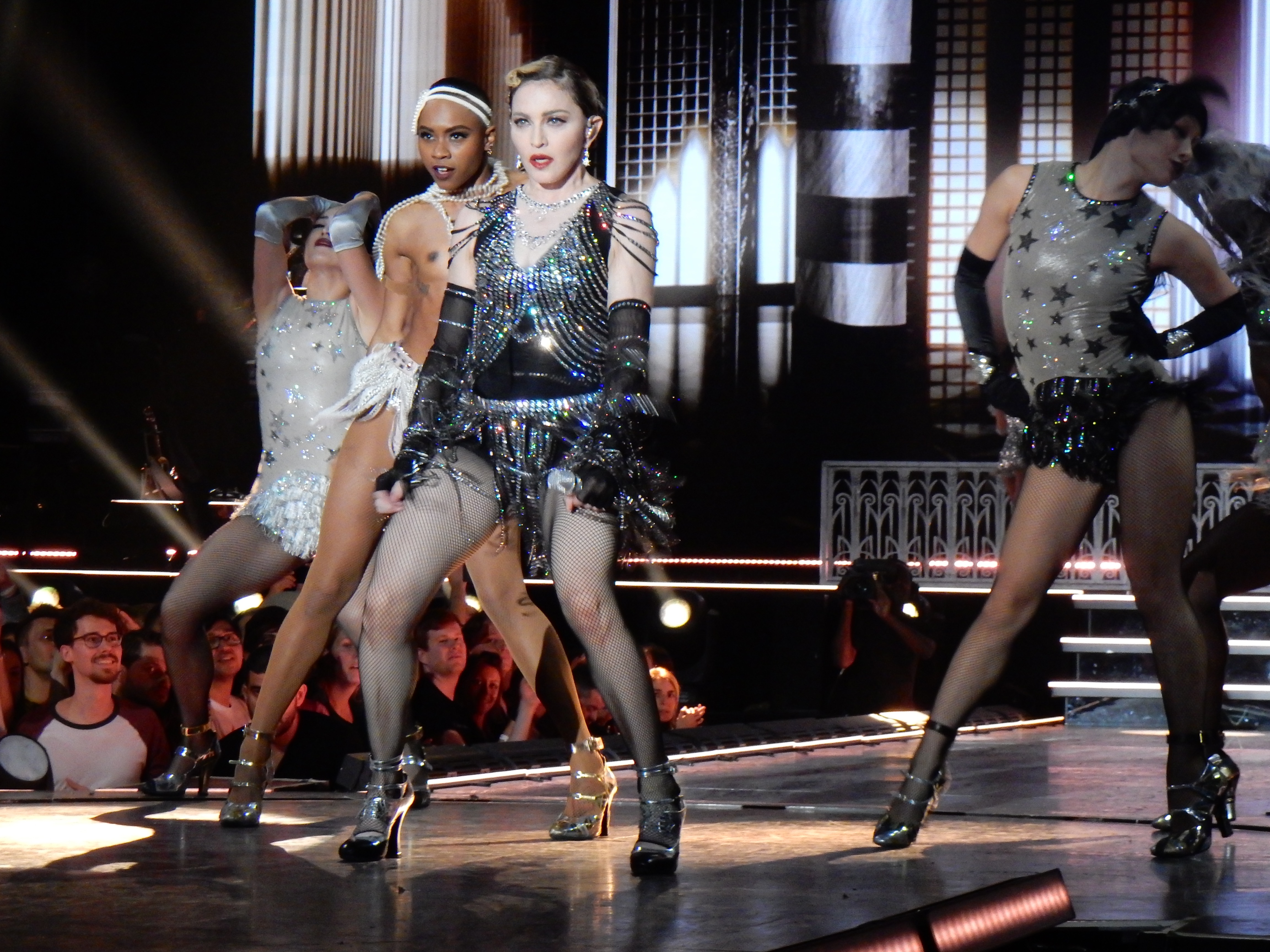 Madonna - Rebel Heart tour 2015 - Berlin 2